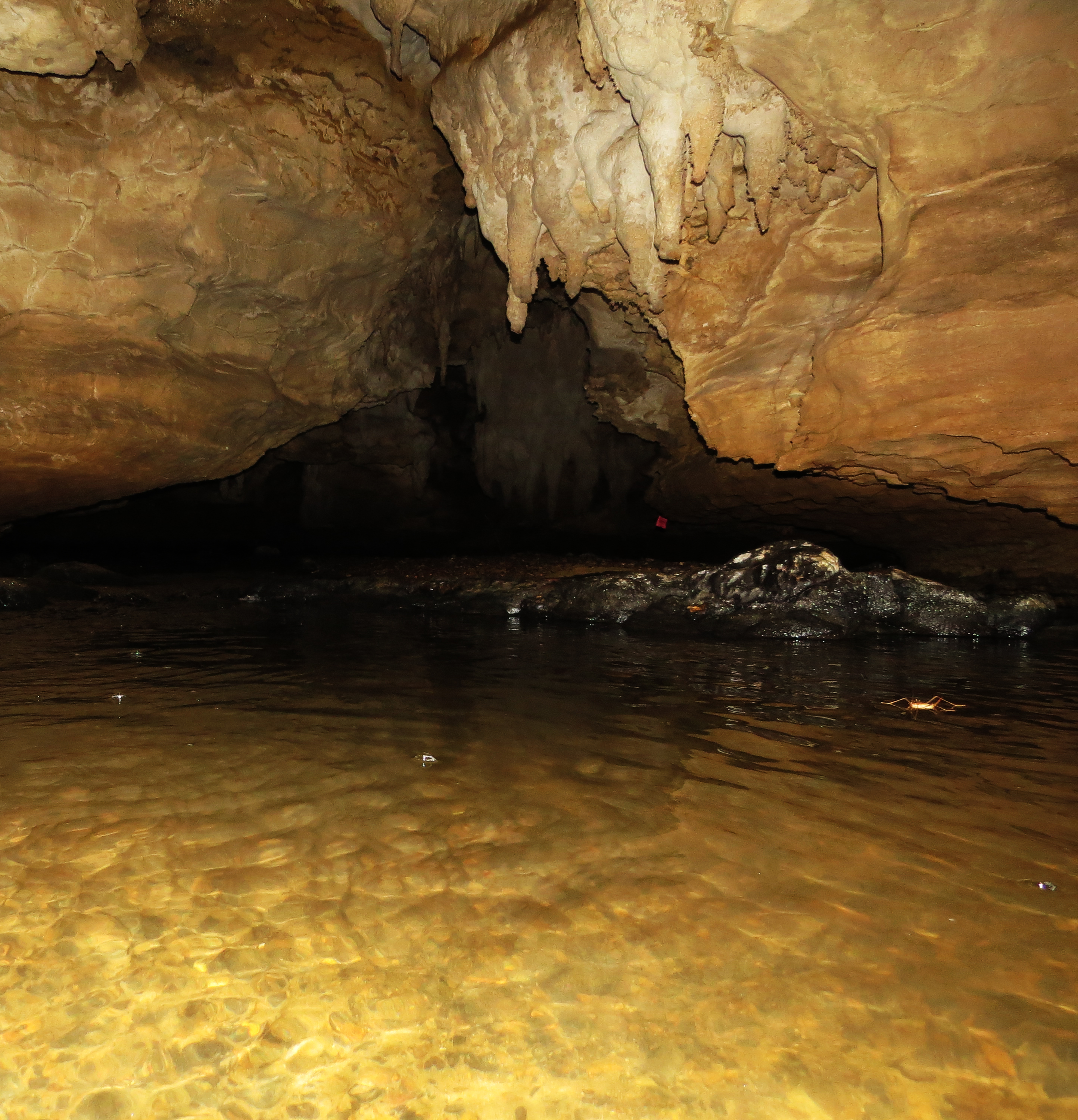 New Zealand cave cricket walking on water